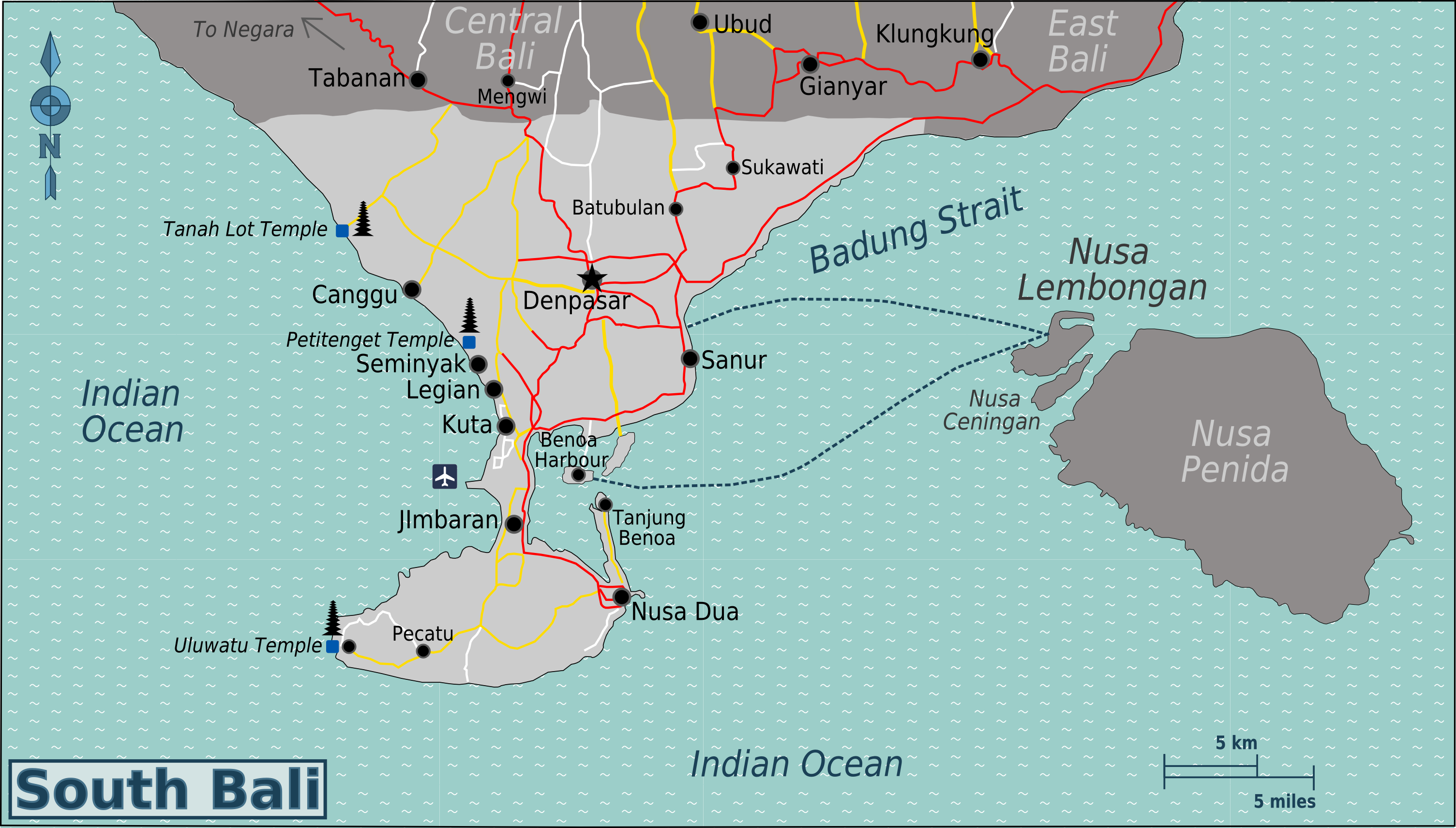 Map of South Bali.